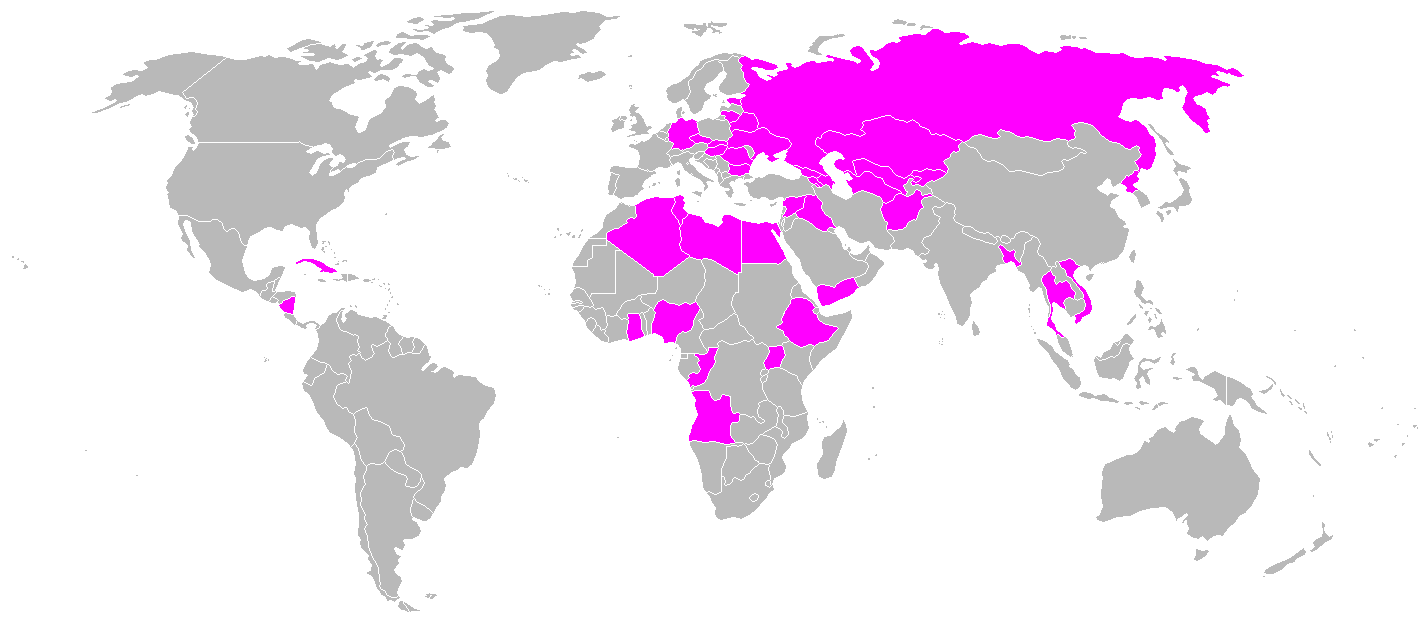 World map of Aero L-39 operators